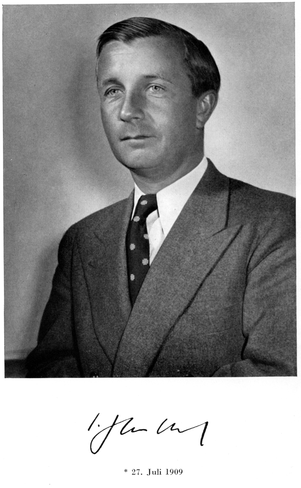 Karl Jost Henkel (1909–1961), grandson of Henkel founder Friedrich Karl Henkel (1848–1930)